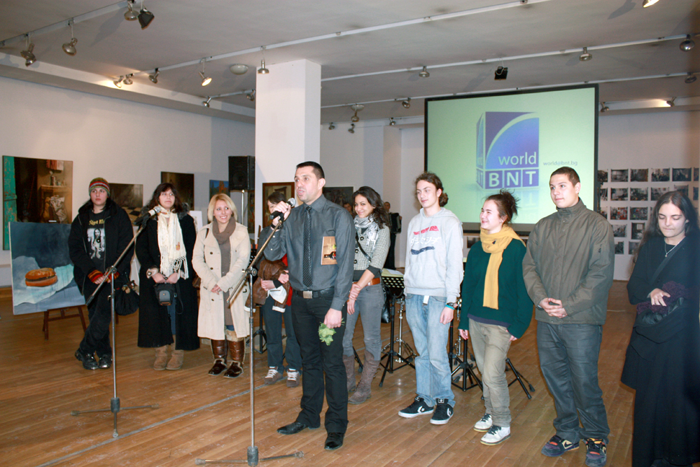 BNT World organized youth art exhibition opening in Sofia City Art Gallery